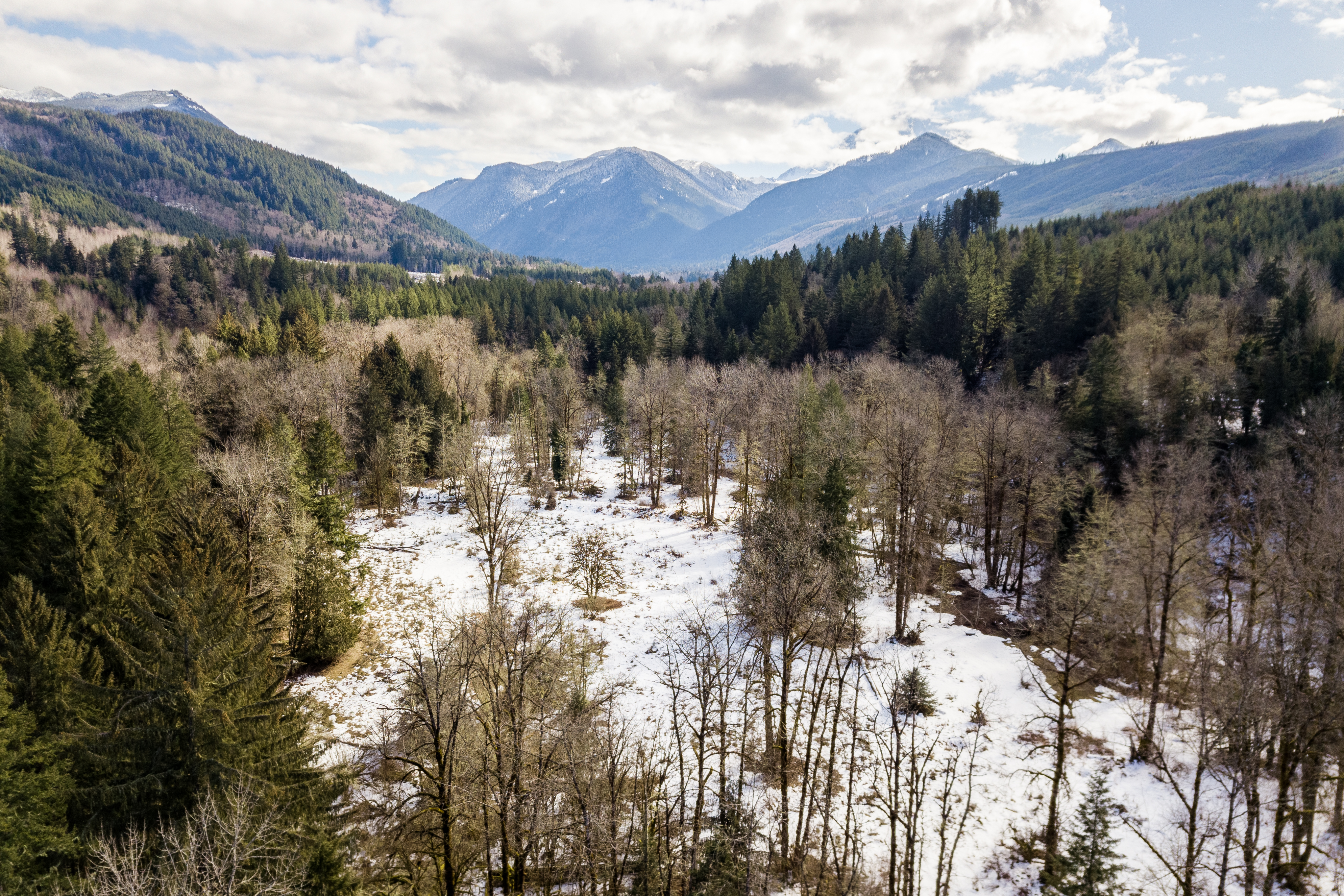 An aerial view to the south of the former Fairfax town site